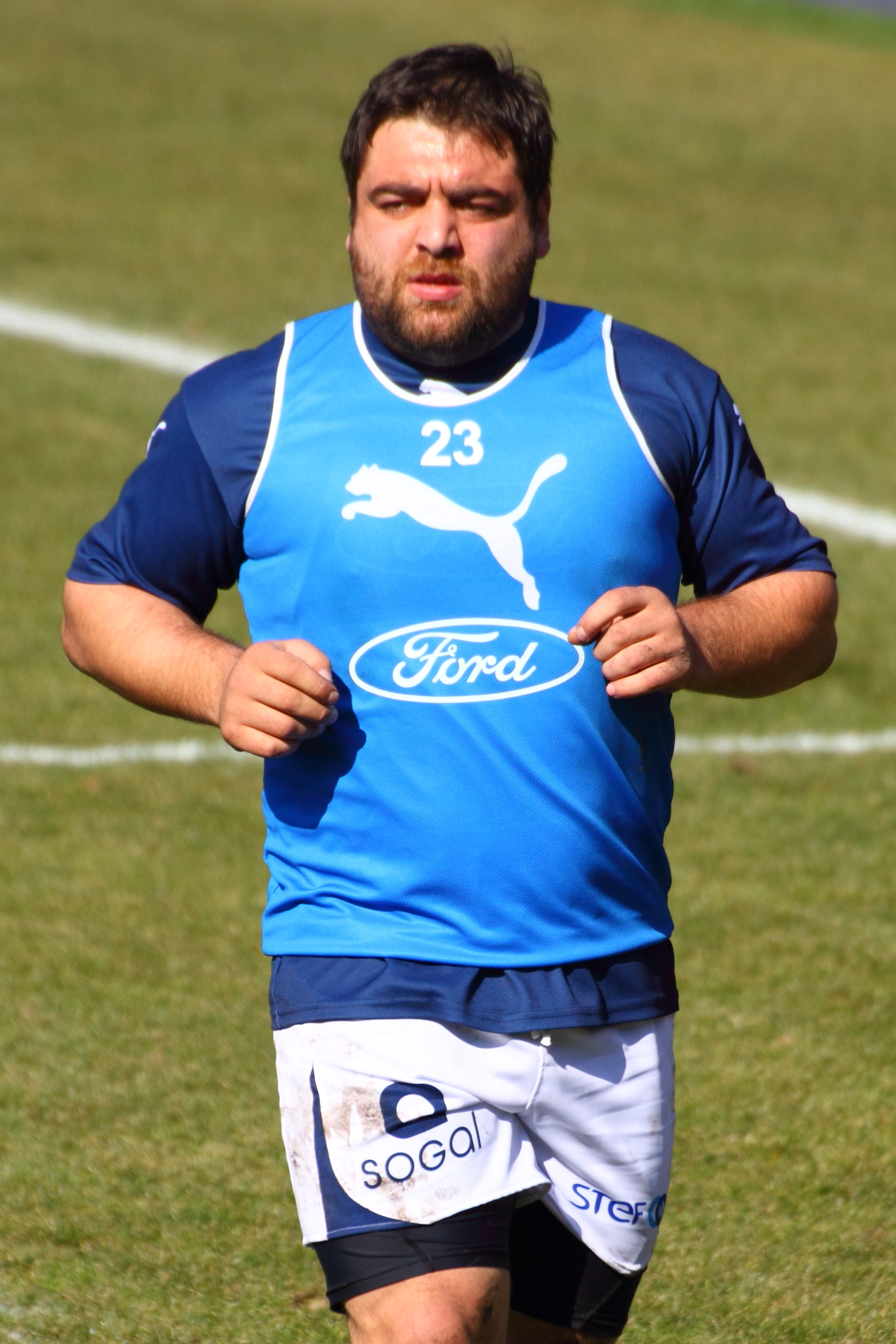 Top 14 — 18 February 2012, Stade Ernest-Wallon. Match between: Stade toulousain — Sporting union Agen Lot-et-Garonne